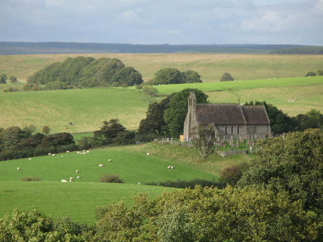 St. Cuthbert's Church, Nether Denton